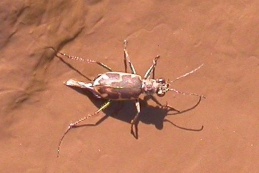 Salt Creek tiger beetle (Cicindela nevadica lincolniana) The Salt Creek tiger beetle is an active, ground-dwelling, predatory insect. On February 1, 2005, the U.S. Fish and Wildlife Service proposed listing the Salt Creek tiger beetle as endangered under the U.S. Endangered Species Act. The only three known populations of these species in the world occur in saline wetlands in eastern Nebraska. The beetles are considered the rarest insect in Nebraska. Title: WOE98 Salt Creek Tiger Beetle Alternative Title: cicindelidae nevadica lincolniana